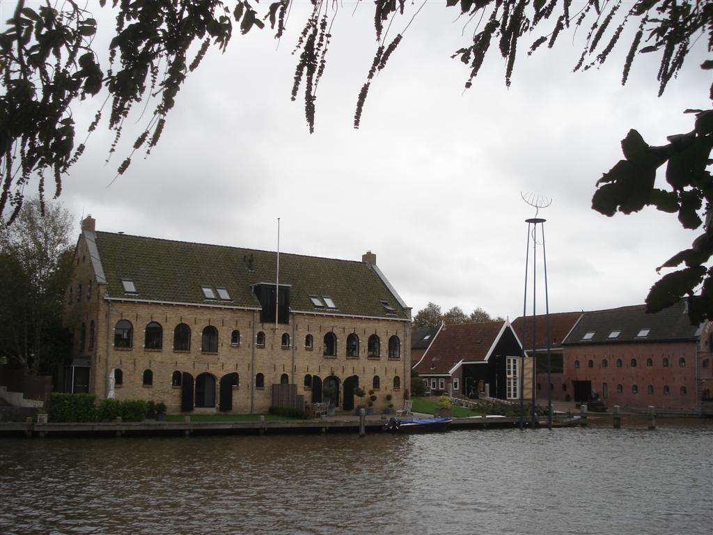 Picture of the ancient wharf facility of the Dokkum Admiralty